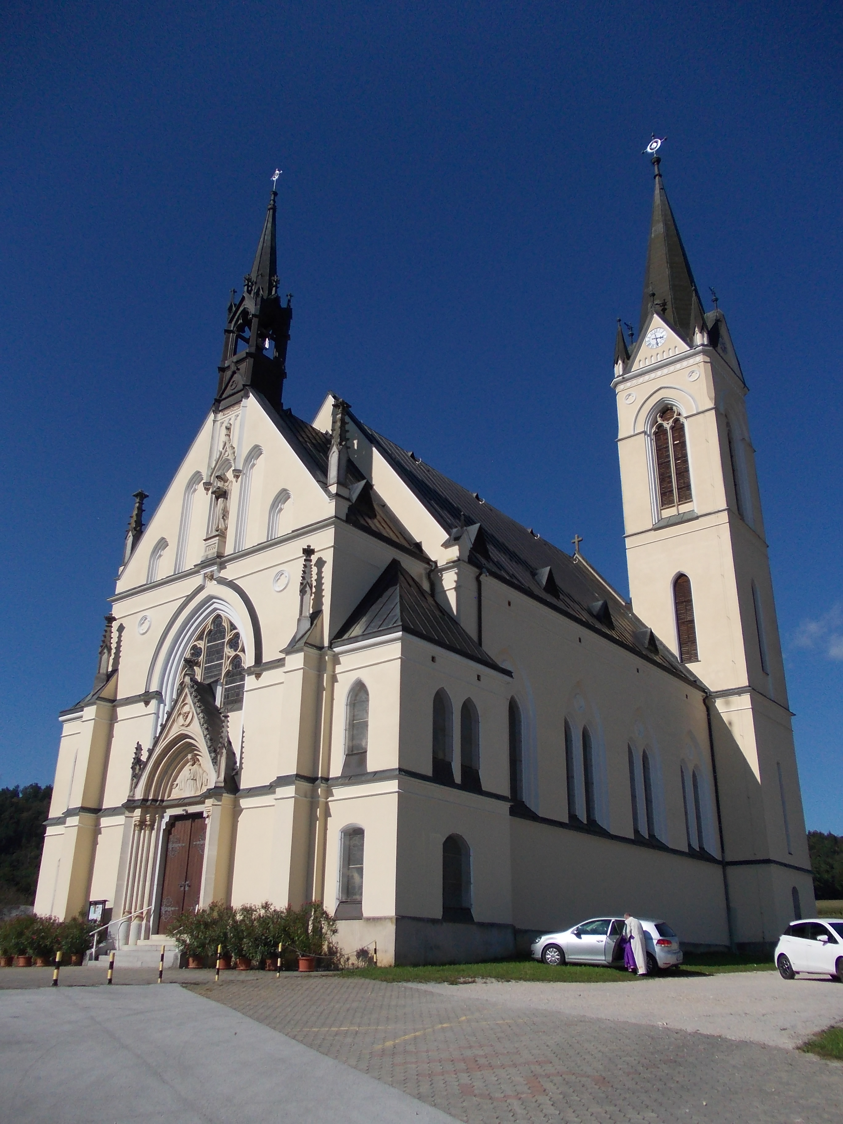 St. Anthony of Padua Parish Church (Prečna)